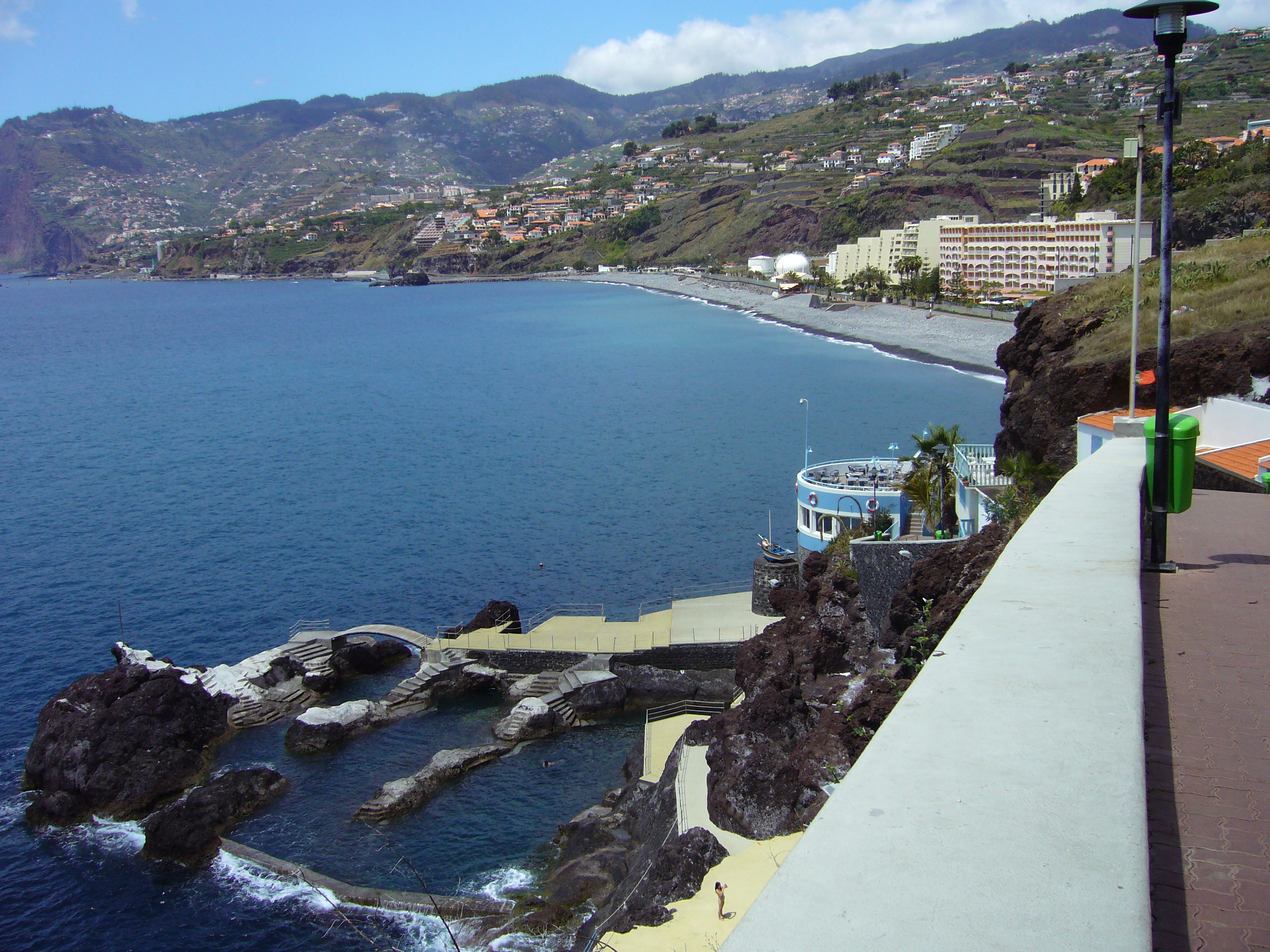 Restaurant and sea-bathing pools at Doca do Cavacas - Funchal.